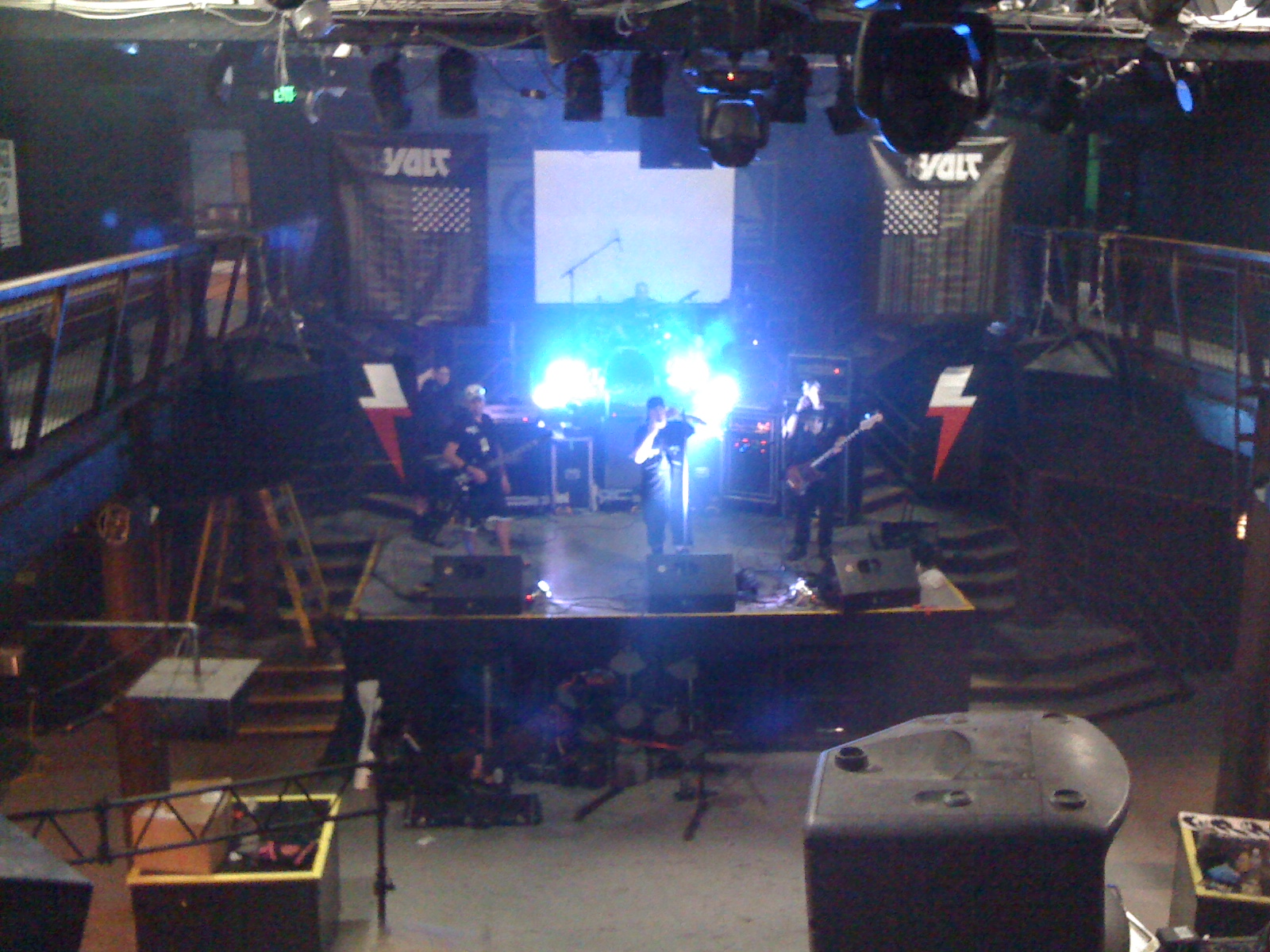 Sound checking at DNA Lounge, San Fransisco